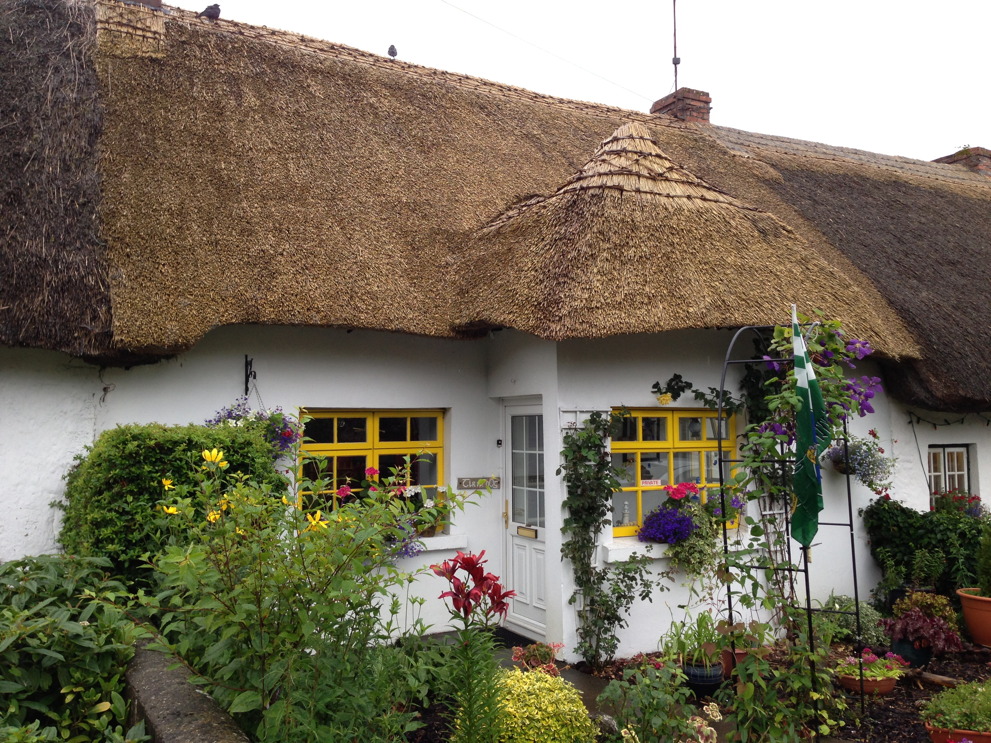 View of typical thatched cottage in Adare, Ireland